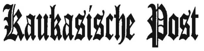 Logo